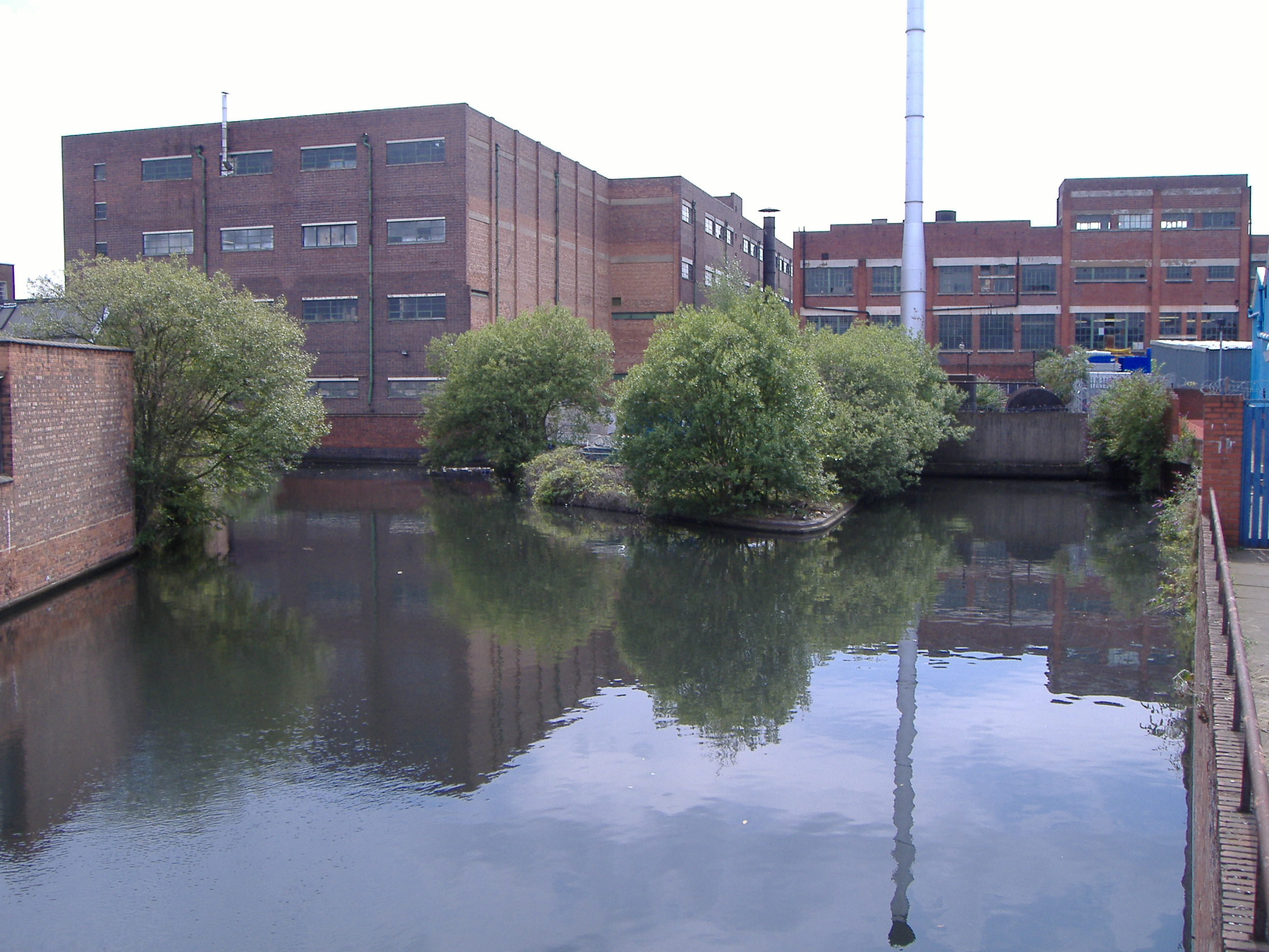 This is the former Typhoo Tea factory and canal wharf in Digbeth, Birmingham. It is to be redeveloped into apartments.